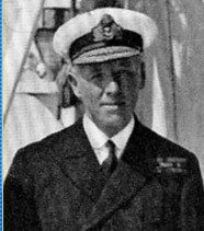 Admiral of the Fleet Sir Ernle Chatfield